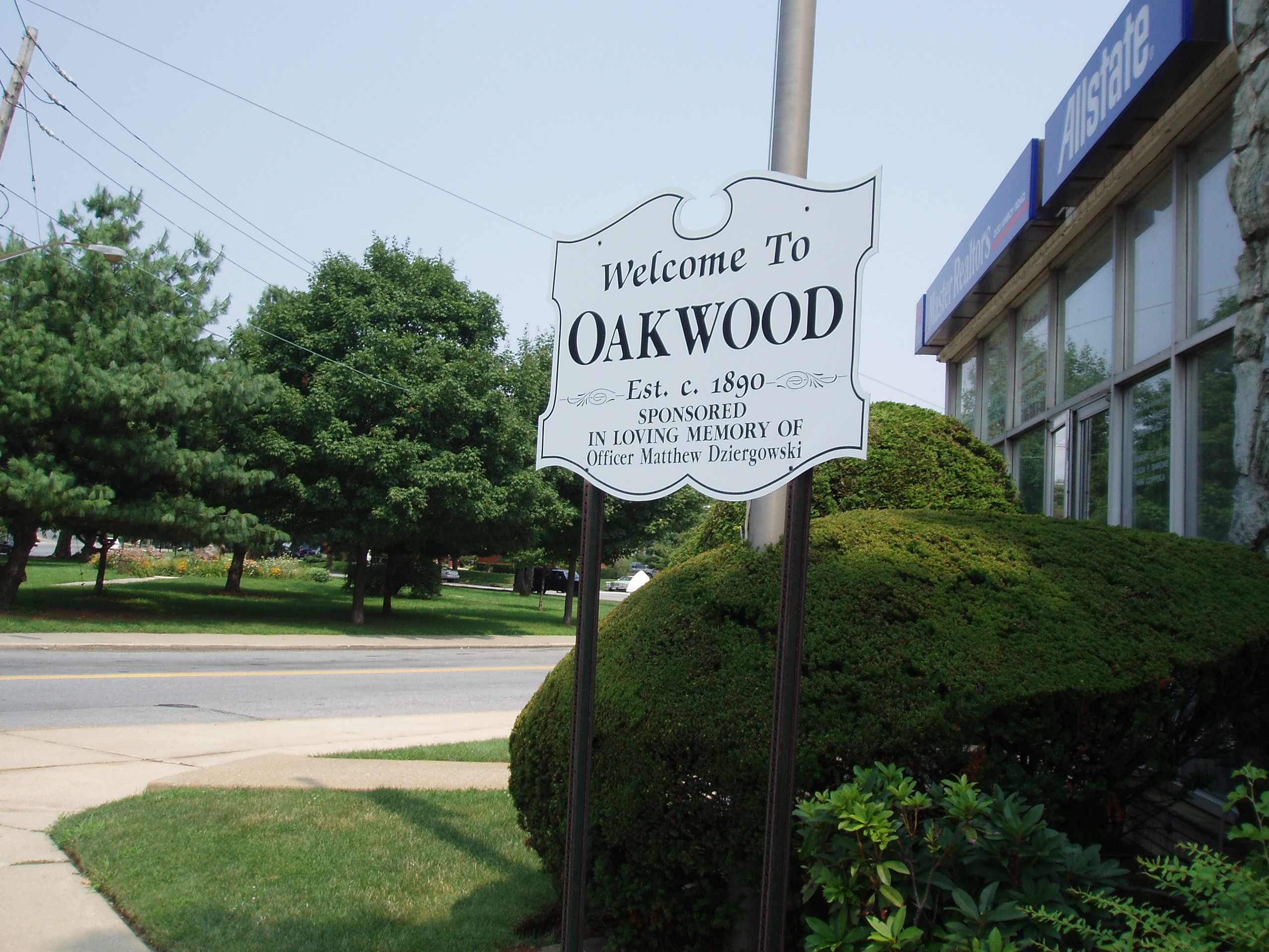 Oakwood Welcome Sign on Amboy Road next to realtor.